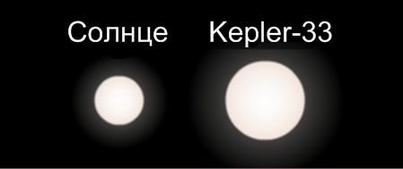 Comparative sizes of Sun and Kepler-33.